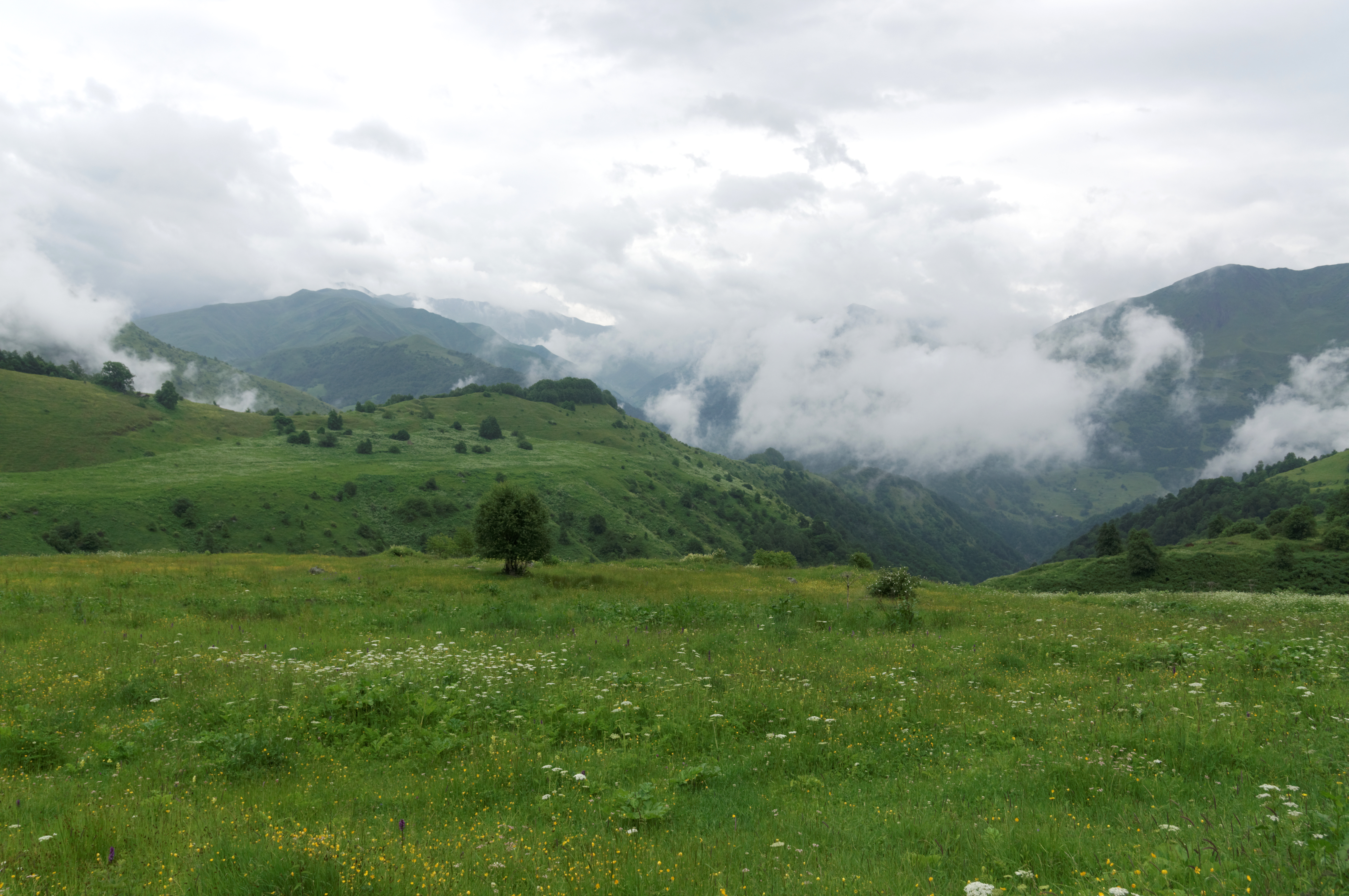 Abudelauri valley under clouds, early summer, Georgia.